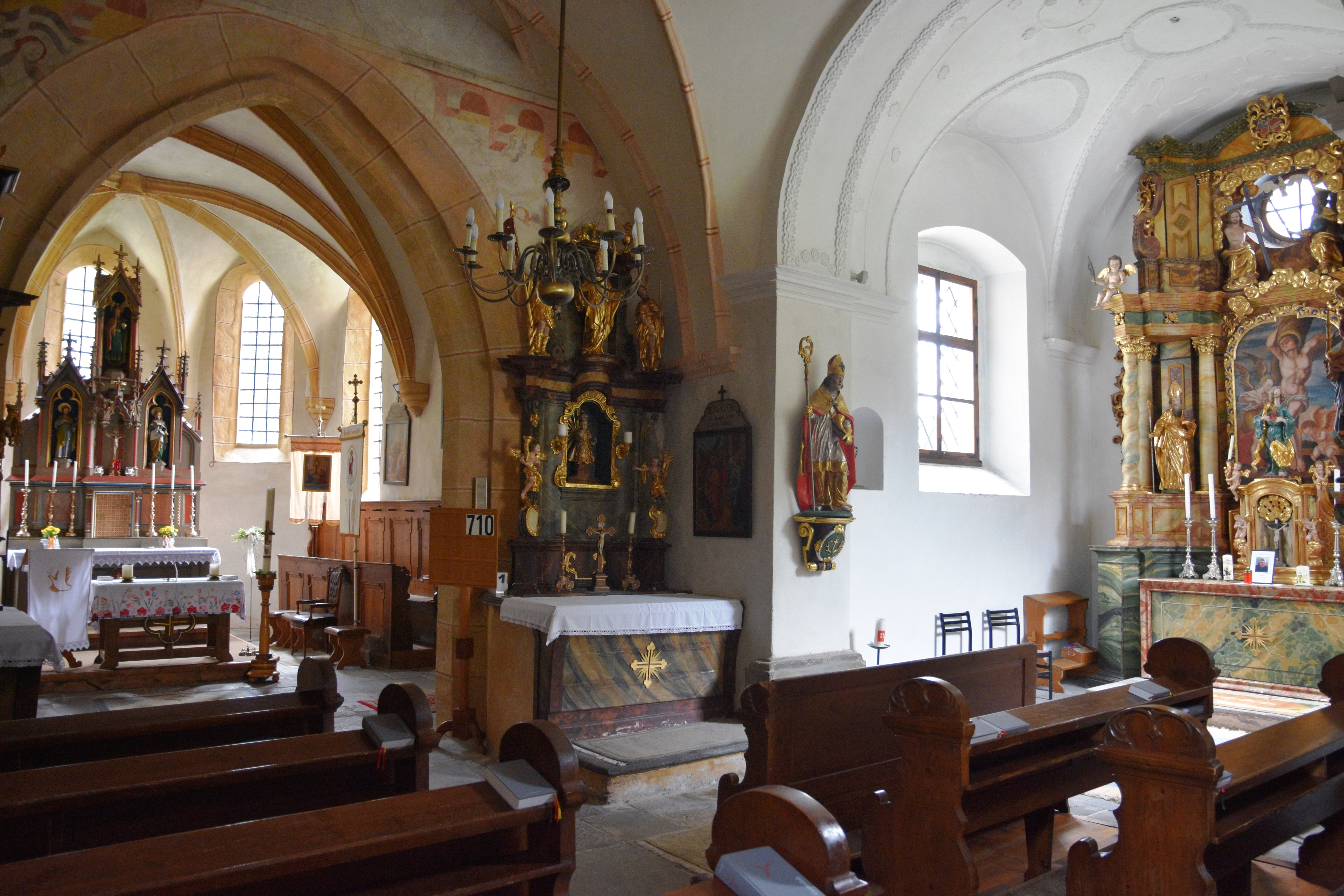 Church Pfarrkirche St. Oswald, Graden Interior